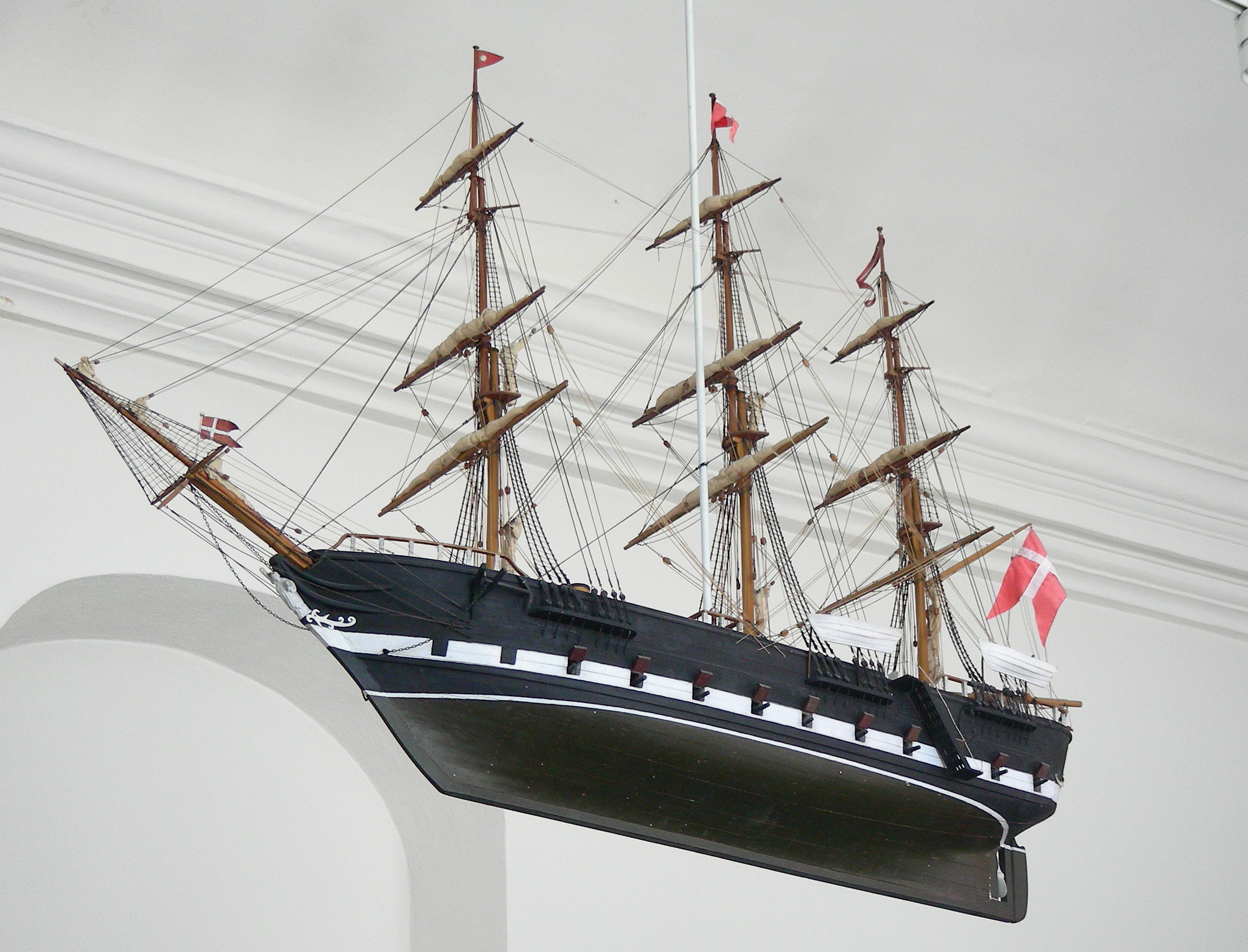 Kastelskirken (Citadel Church), Copenhagen, Denmark. Model of the frigate Jylland.